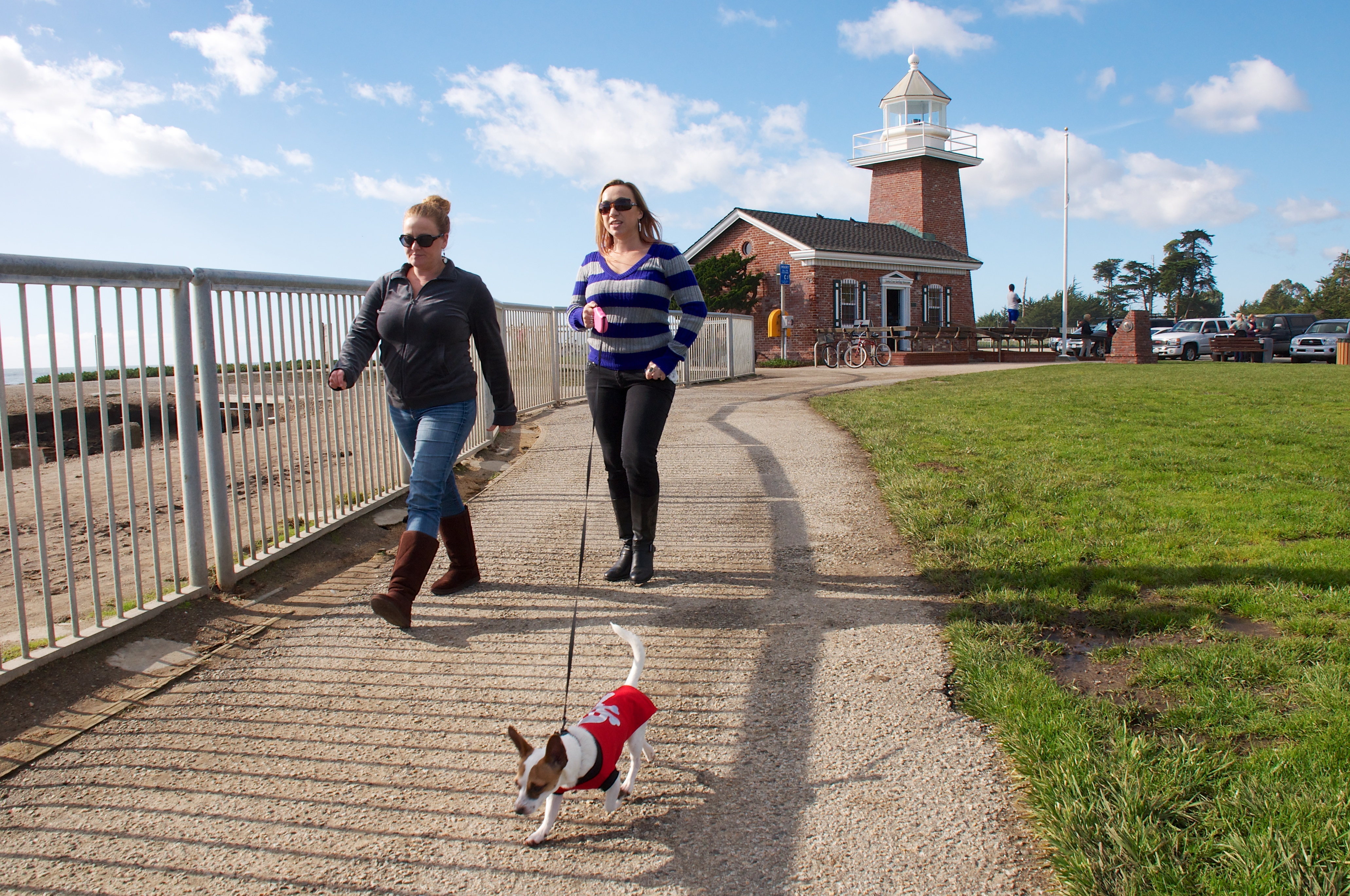 Walking the Dog by the Santa Cruz Lighthouse